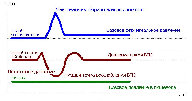 The M-shaped upper esophageal sphincter relaxation